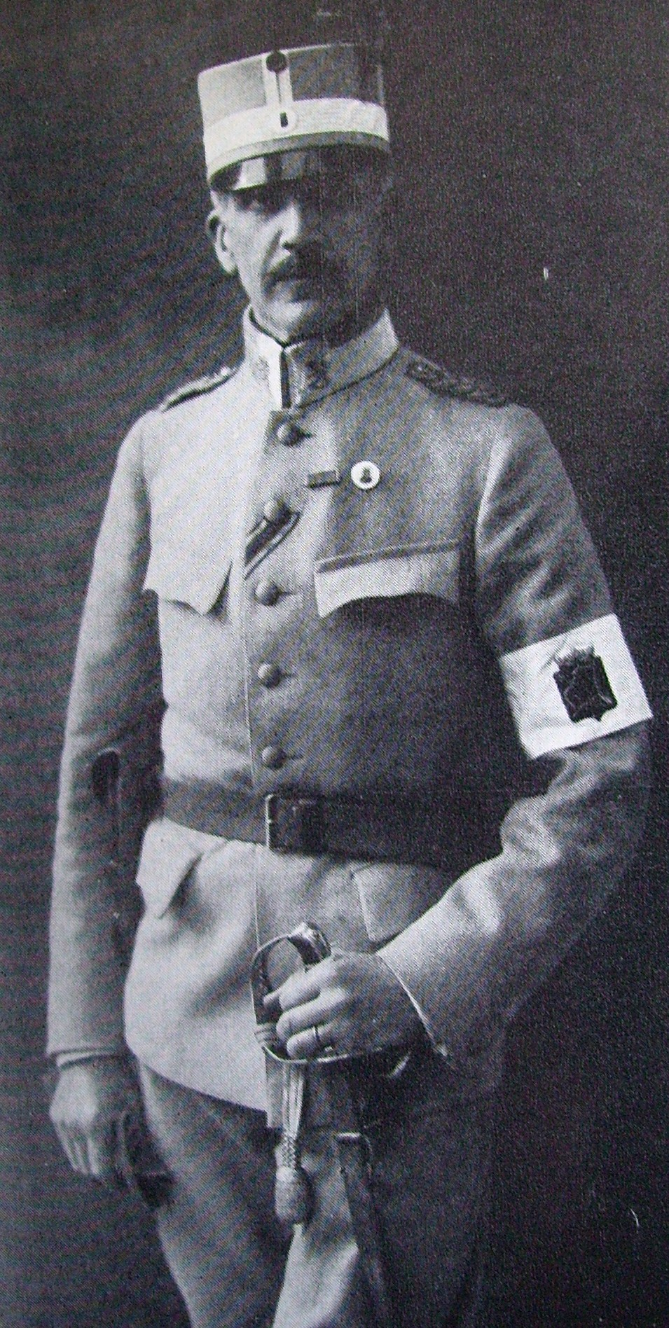 Picture of Ernst Linder, Swedish general